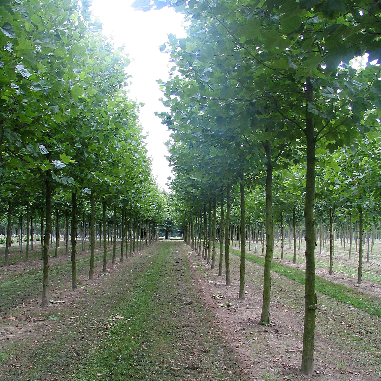 Platanus hispanica, 3x transplanted, Lappen nursery, Nattetal